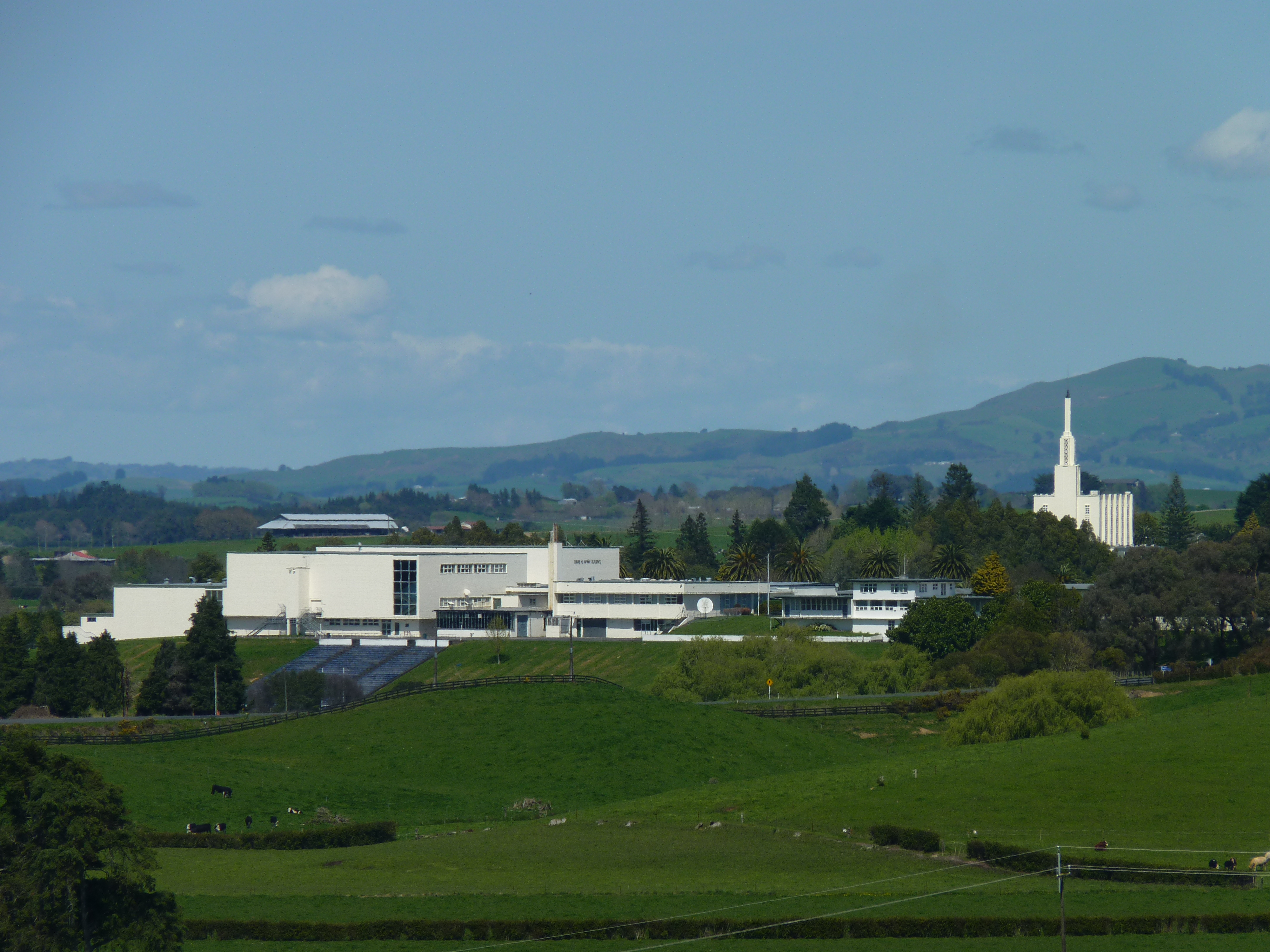 Temple View and the Church College campus in south Hamilton, New Zealand.